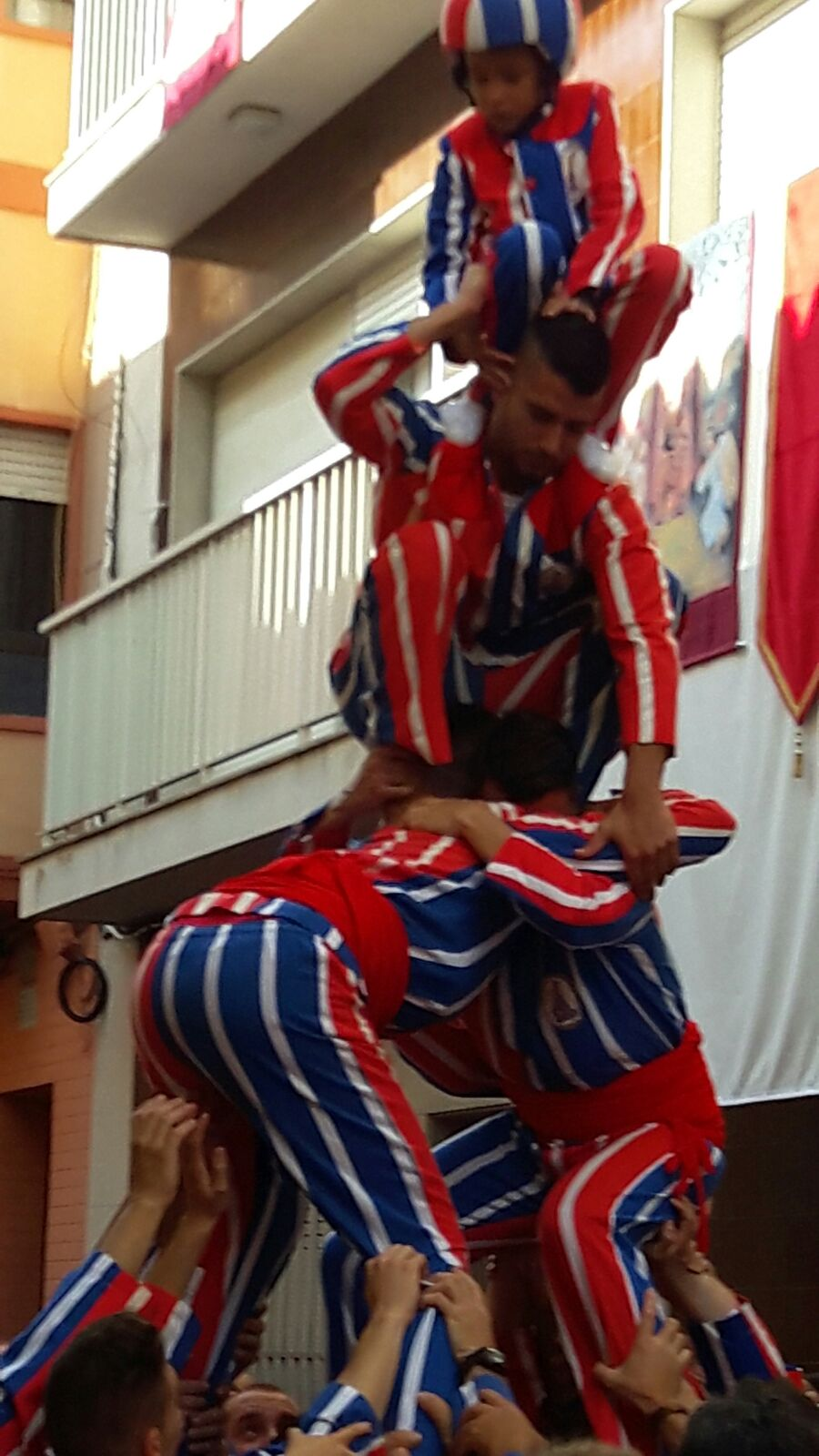 Mare de Déu de la Salut. La Mare de Déu de la Salut Festival is celebrated in September 8, in Alegemesi, Spain and commemorates the legendary discovery in 1247 of a statue depicting the Madonna and Child.